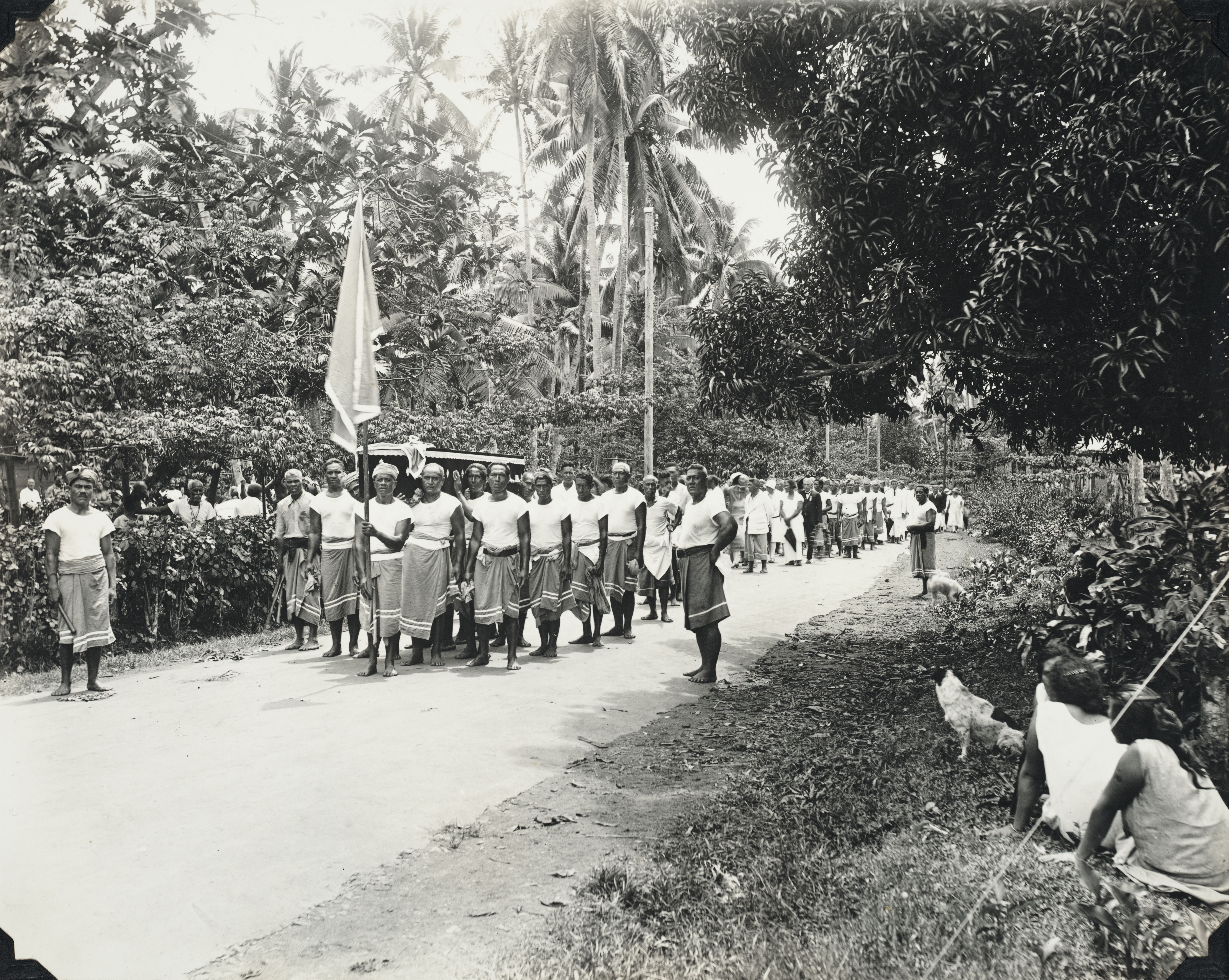 The funeral procession of Tupua Tamasese Lealofi III, leader of the Mau movement, Samoa, 1930. Mau supporters carry Tamasese's coffin. To the right is high chief Mata'afa Faumuina Fiame Mulinu'u I (died 1948), wearing a single white strip on his lavalava, the Mau uniform, who became the President of the Mau afterwards, and whose son became the first Prime Minister of Samoa. Gagana Samoa: Le solo o le maliu a Tupua Tamasese Lealofi III i le tausaga 1930. I le itu tamatau o le ata, o Mata'afa Faumuina Mulinu'i I (na maliu i le tausaga 1948).